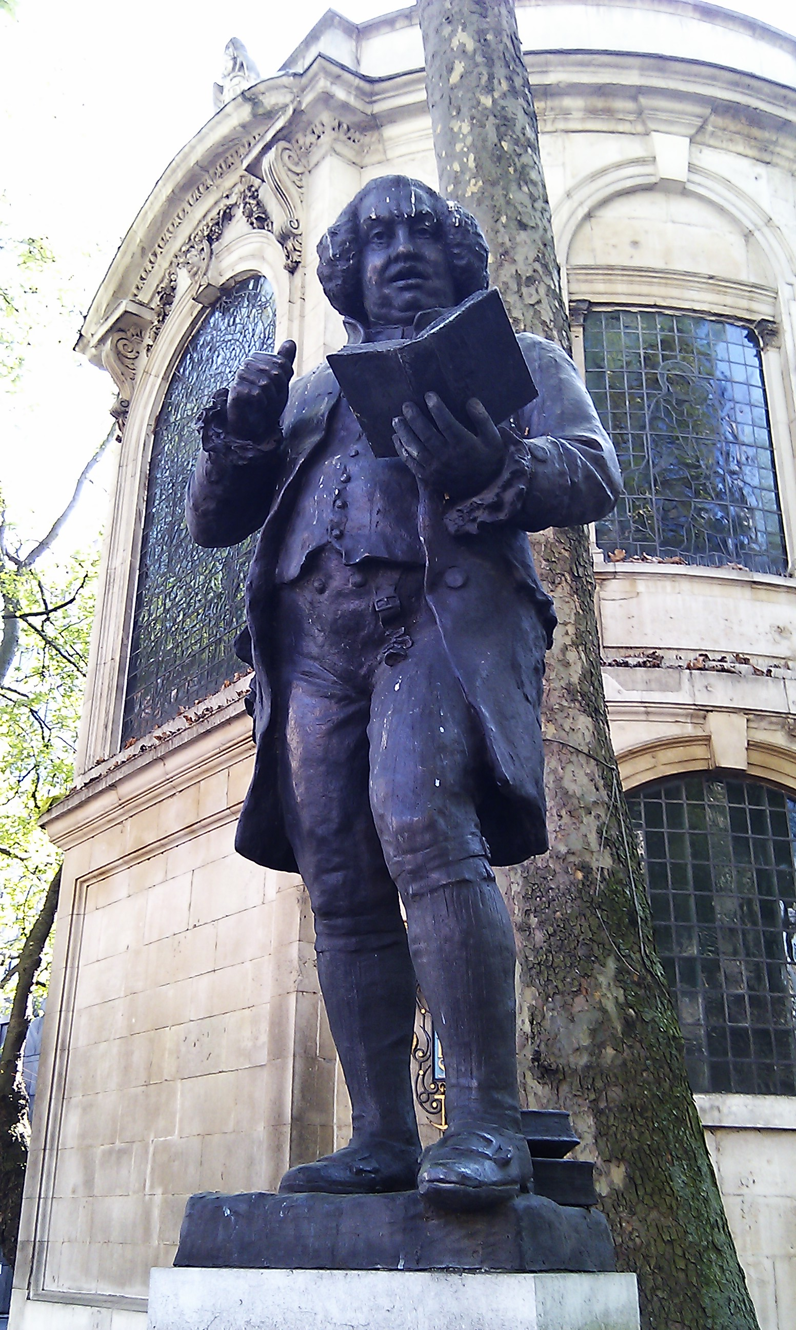 Statue of Samuel Johnson (behind St Clement Danes, Strand, London, United Kingdom)